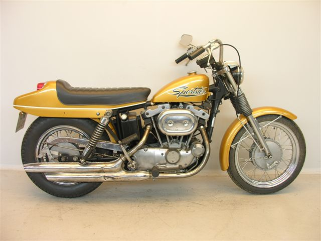 Harley-Davidson XLCH Sportster from 1973.